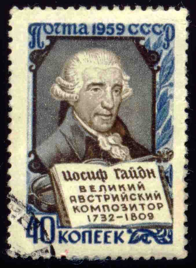 Soviet Union stamp, Joseph Haydn, composer, 1959, 40 rub., CPA 2311.